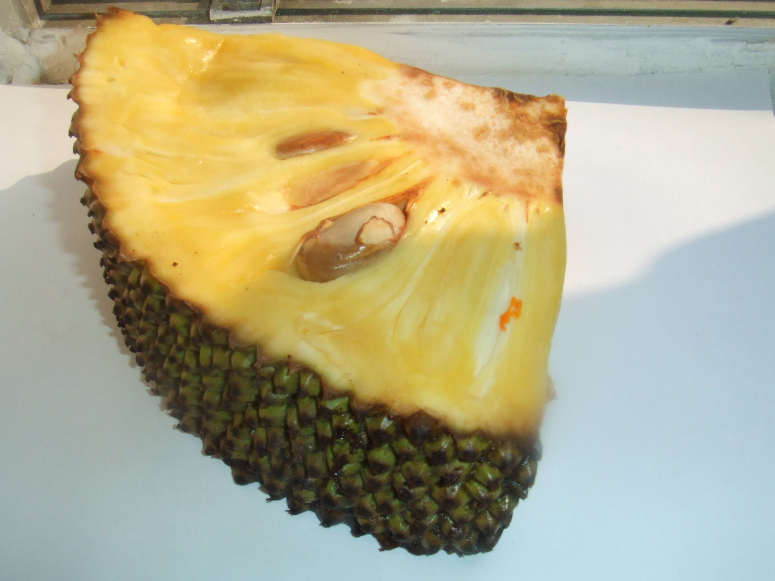 Artocarpus heterophyllus, bought at the Binnenrotte market in Rotterdam, The Netherlands